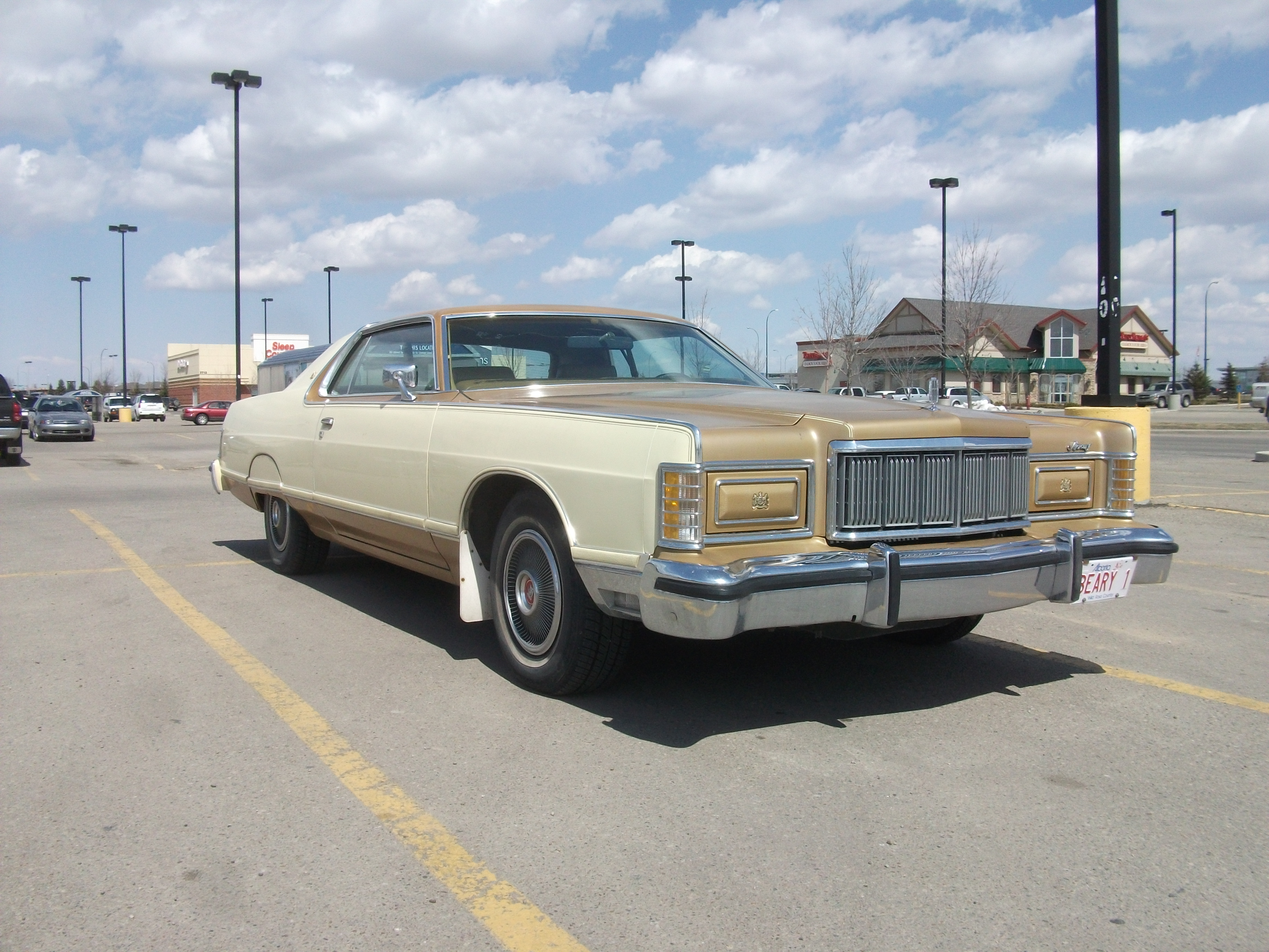 Front view of a Mercury Grand Marquis two-door sedan. This is a 1975-1978 model; after downsizing in 1979, the Grand Marquis became a stand-alone Mercury line in 1983.